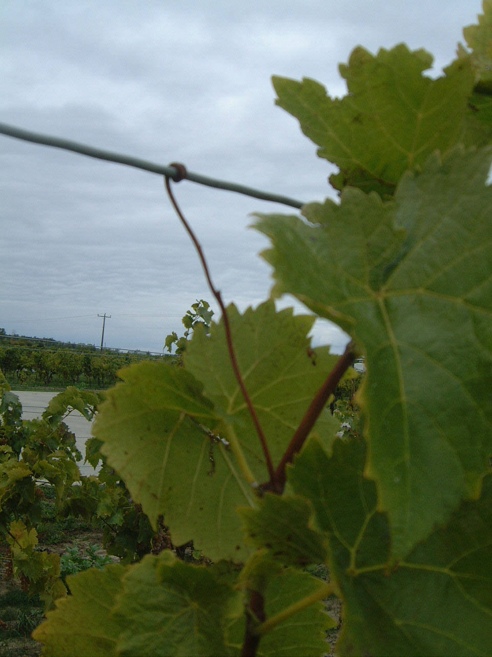 Grapevine at Inniskillin Vineyards in Niagara-on-the-Lake, Ontario, Canada. Look how the plant reaches for and purposely wraps around the galvanised wire provided for the purpose. This is a very tough twig and appears to have no other purpose than support for the plant. Nothing else grows from it. It must reach out softly, then wrap around and then dry and get tough.